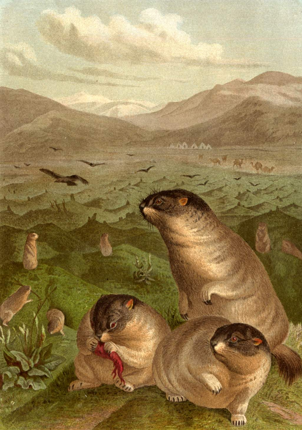 "4. Bobak marmot, Marmota bobak P. L. page Müll. 1/6 natural size, see page 285." Size: 5.0 x 7.4 in² (12.8 x 18.8 cm²)